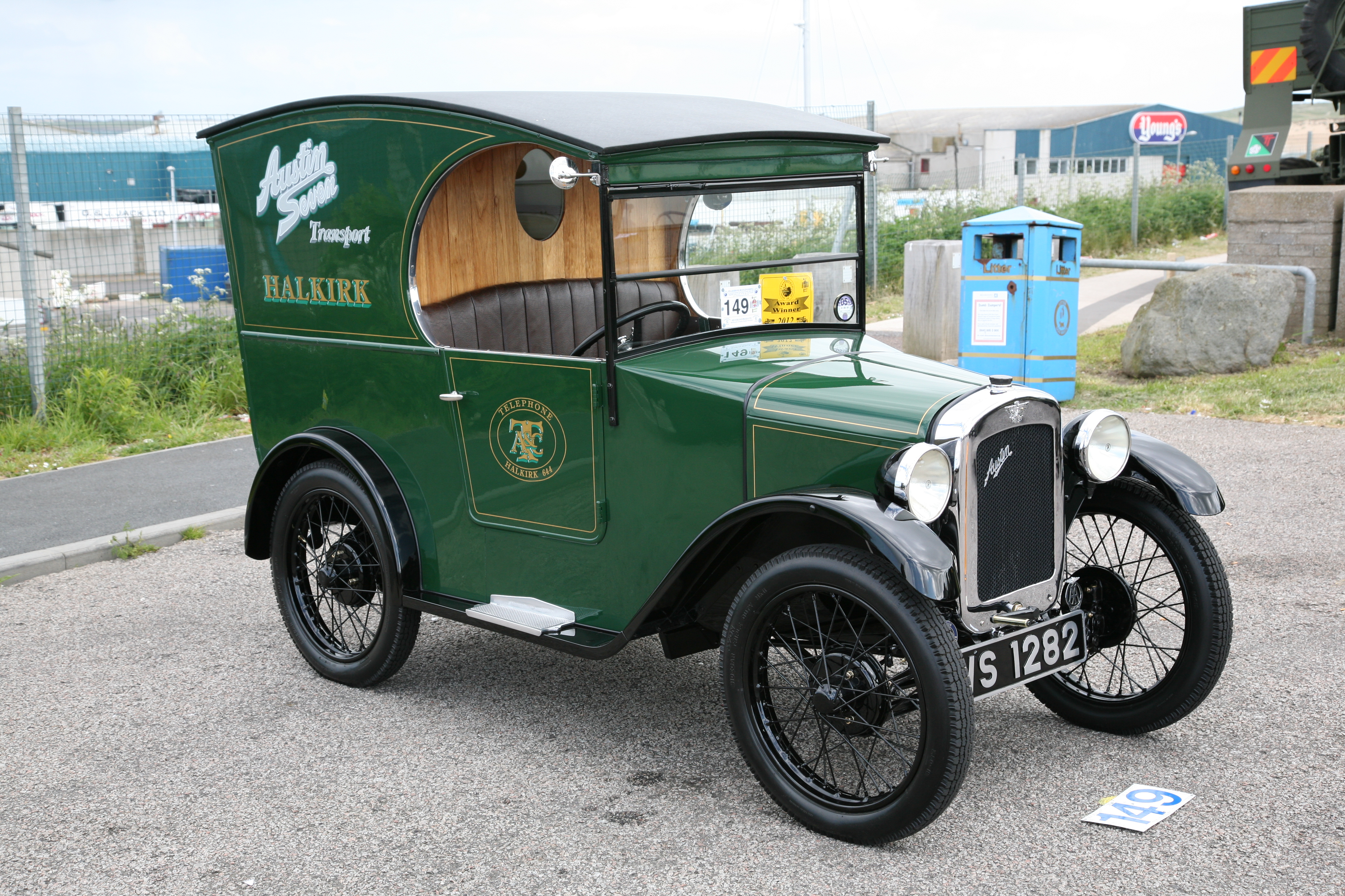 Austin Seven van 1929 (DVLA) first registered 1 January 1929, 747cc